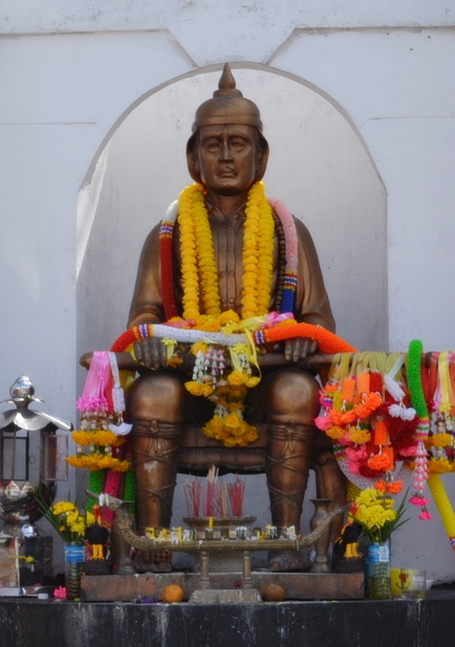 Phraya Pat Monument Location:Uttaradit Province, Thailand.